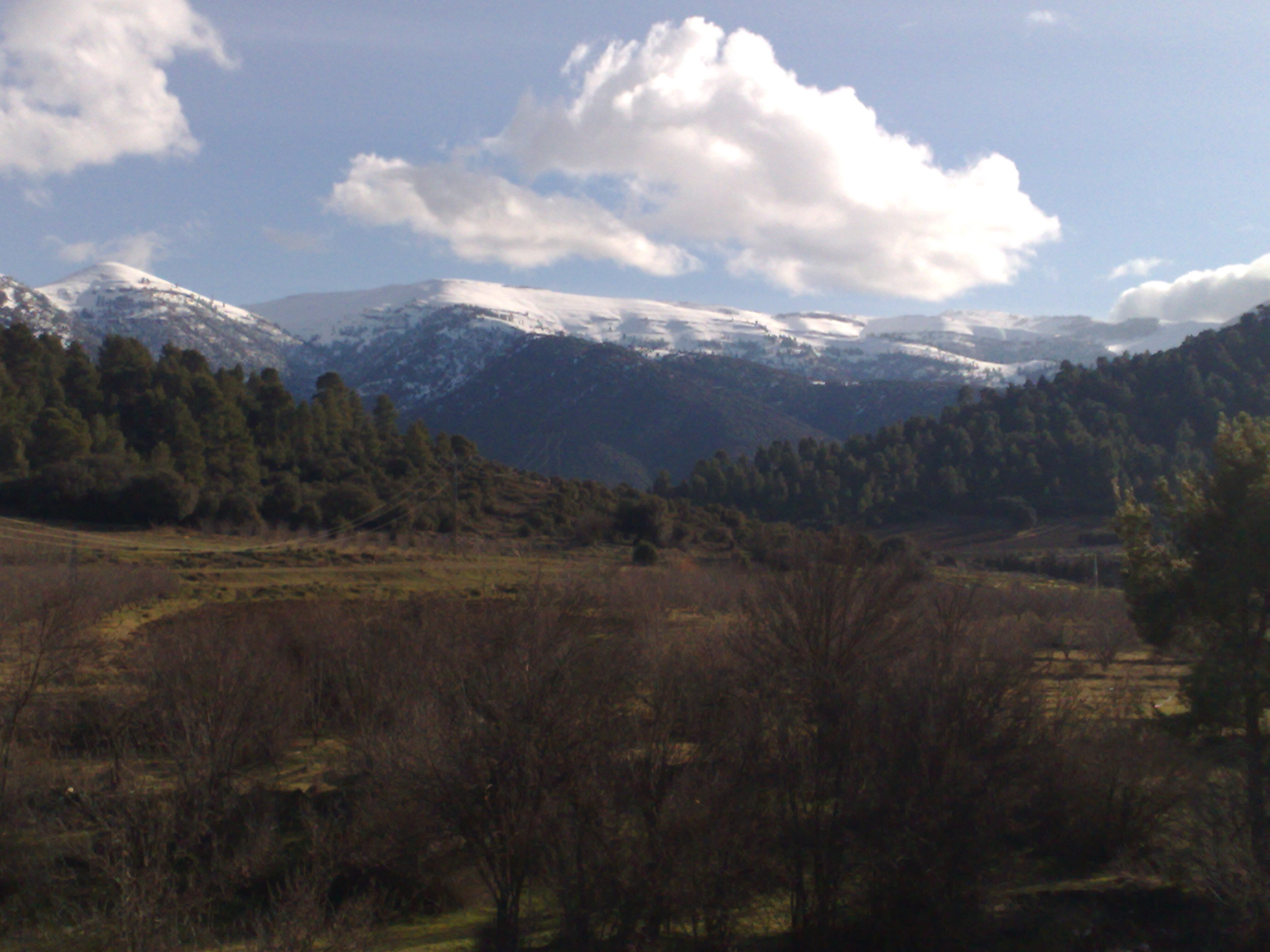 Chelia Batna algeria mountain aures chaoui berber landscape highland